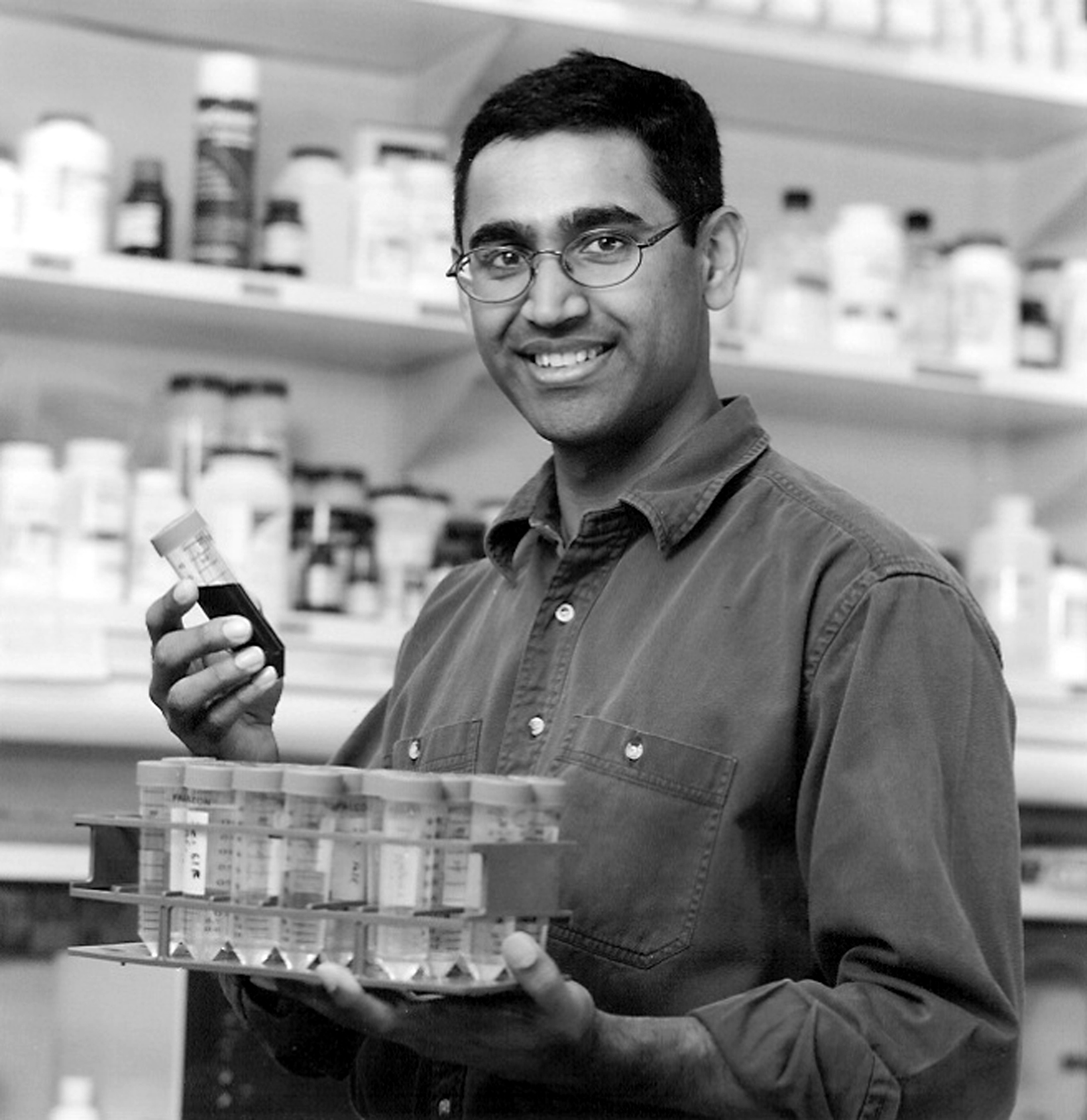 Title Hegde, Ramanujan Description Portrait Topics/Categories National Cancer Institute, People Type B&W, Photo Source National Cancer Institute